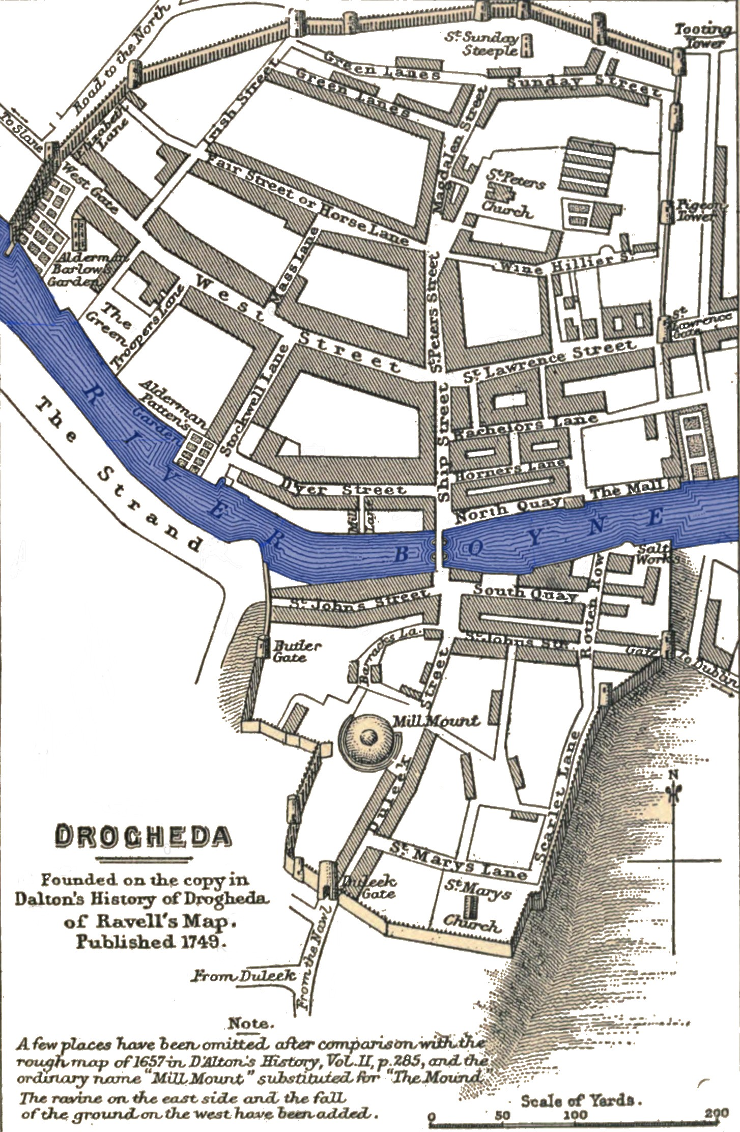 Drogheda -- S. R. Gardiner notes: Founded on the copy of Ravell's map published 1749 in D'Alton's History of Drogheda, Vol. II, p. 363, Note A few places have been omitted after comparison with the rough map of 1657 in the same volume p. 285, and the ordinary name "Mill Mount" substituted for "The Mound". The Ravine on the east side and the fall ground on the west have been added.